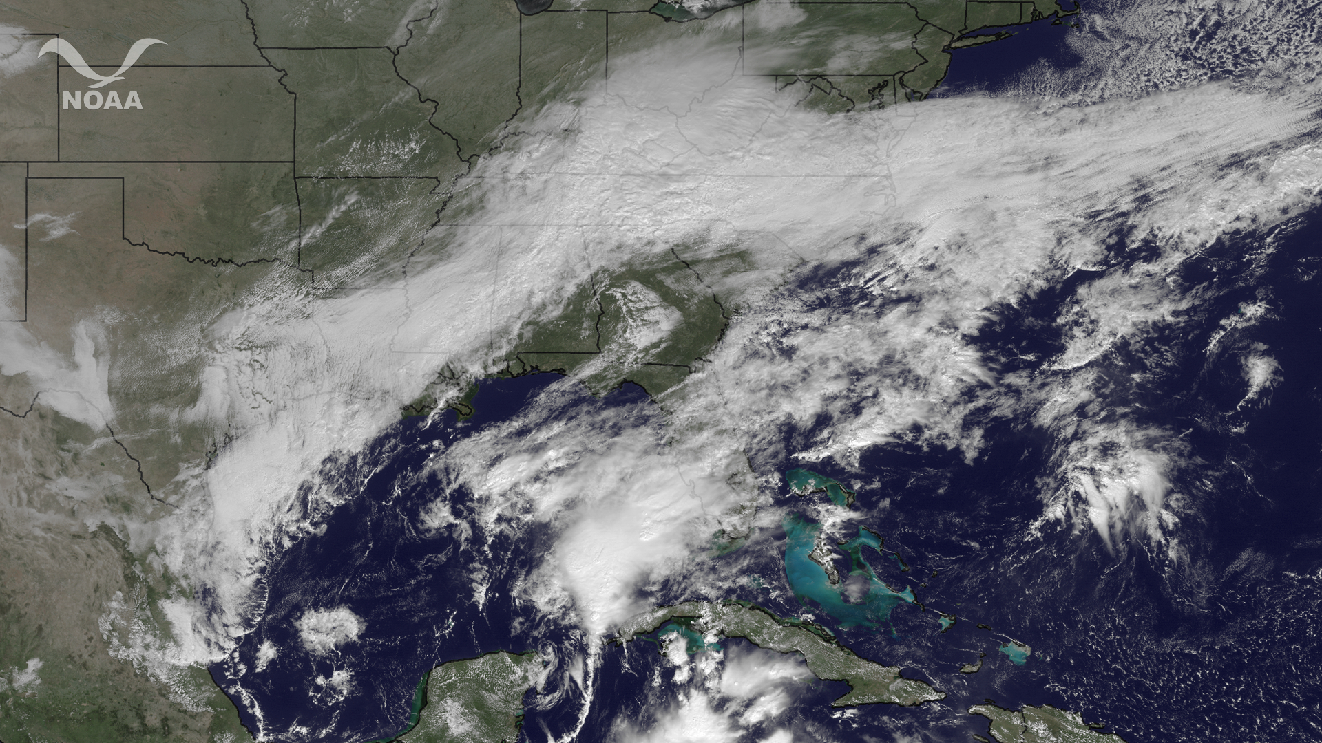 Winter storm as viewed over the United States on October 28, 2011 at 16:15 UTC.